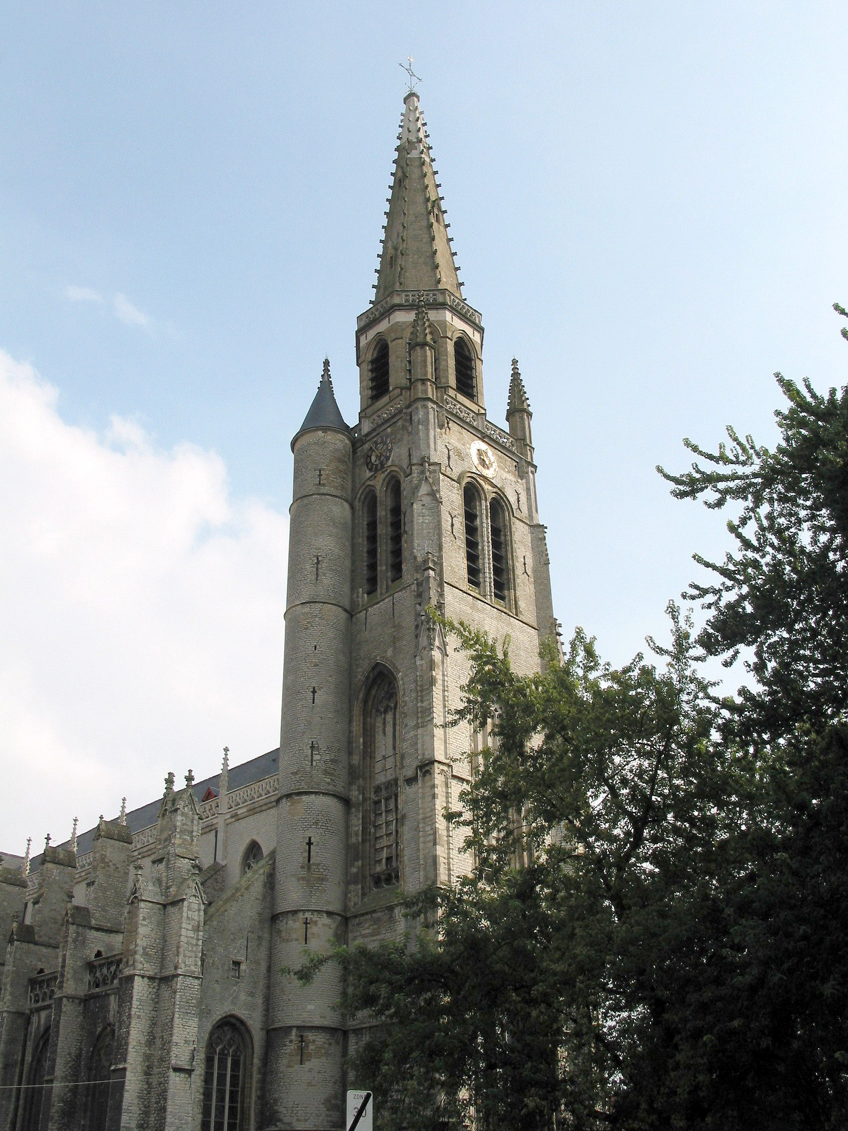 Wervik (Belgium), the St. Medardus' church (1380-1440).